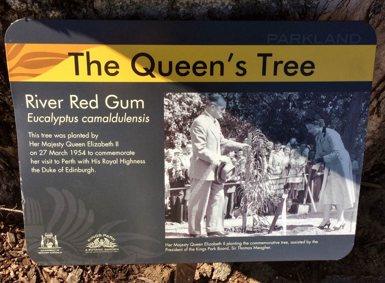 Placard for "The Queeen's Tree", Eucalyptus camaldulensis (river red gum), Kings Park, Perth WA